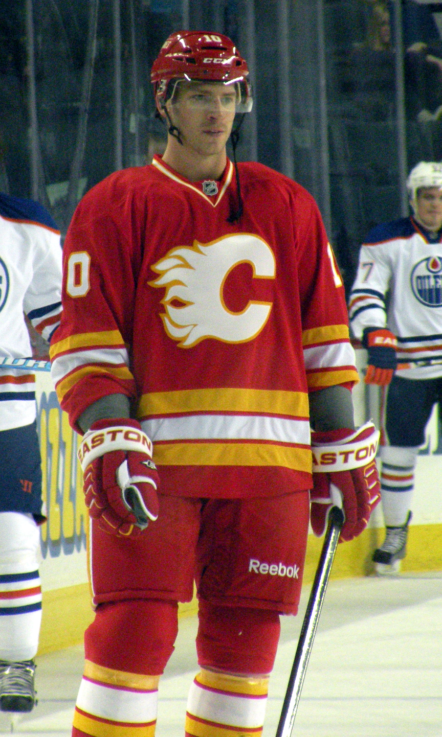 Calgary Flames forward Blake Comeau prior to a National Hockey League game against the Edmonton Oilers, at Calgary.